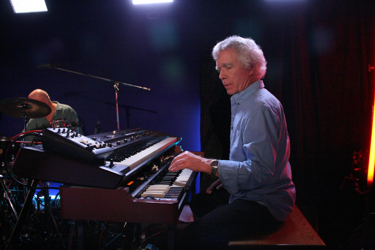 Organist of the Rock Band Van der Graaf Generator